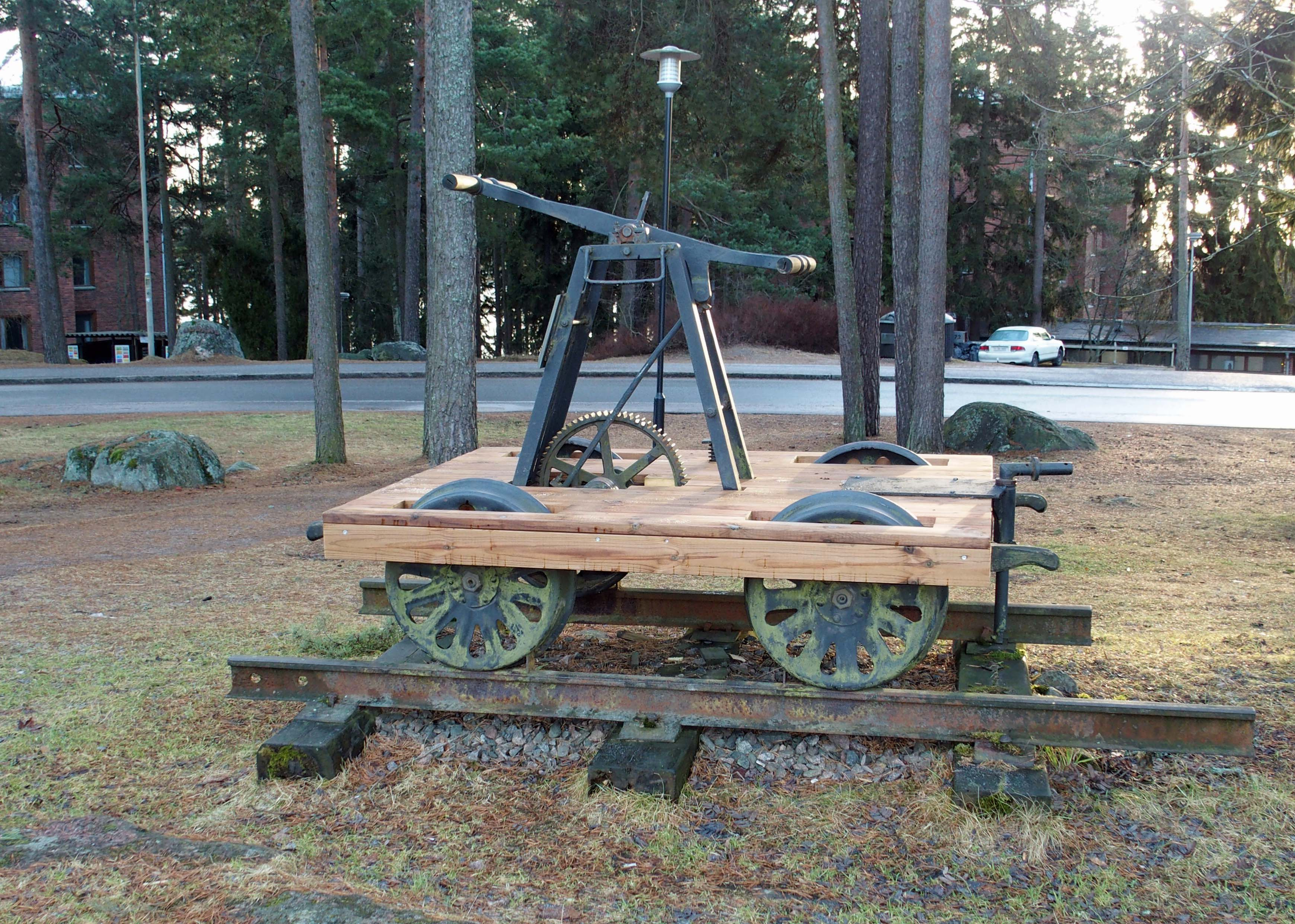 Old draisine to commemorate the 75th birthday of Ossi Törrönen, a popular facilities manager in the Otaniemi student village. Located since 1990 in front of the Servin Mökki clubhouse.